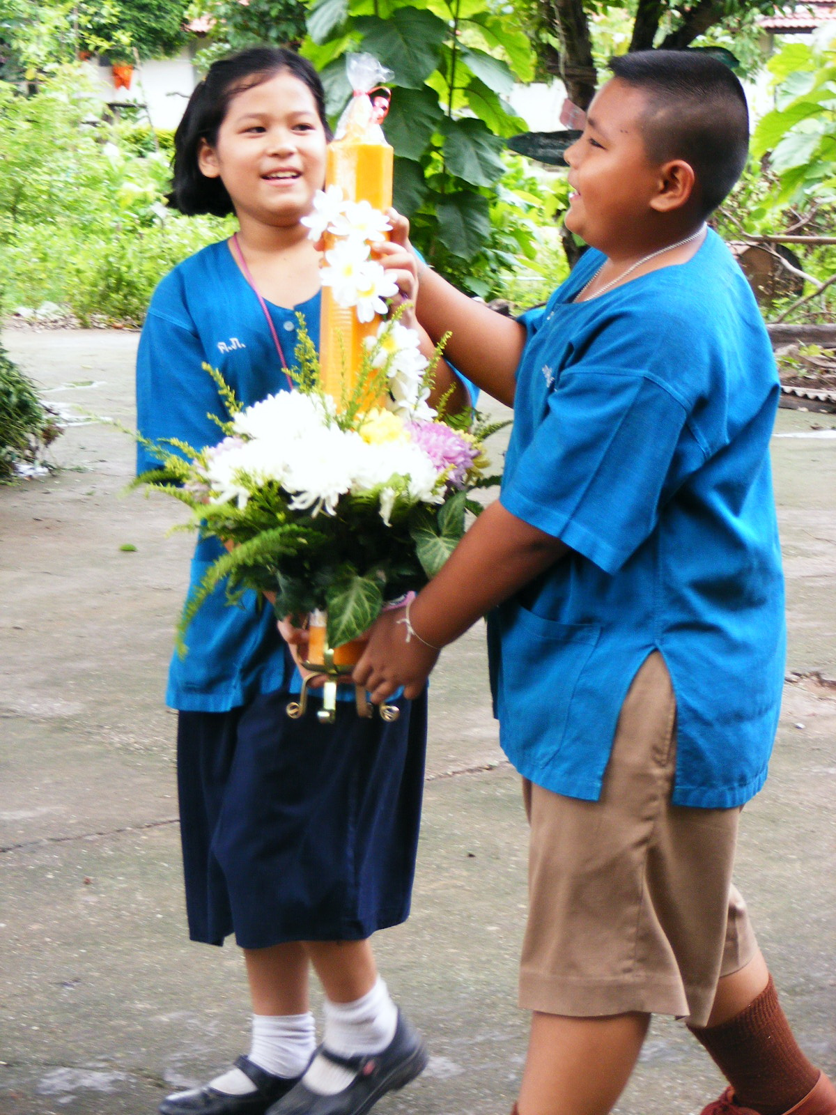 Thian Phansa (big candle used in the temple during the raining) Location: Wat Khung Taphao Ban Khung Taphao, Khung Taphao subdistrict, Mueang Uttaradit, Uttaradit Province, Thailand.